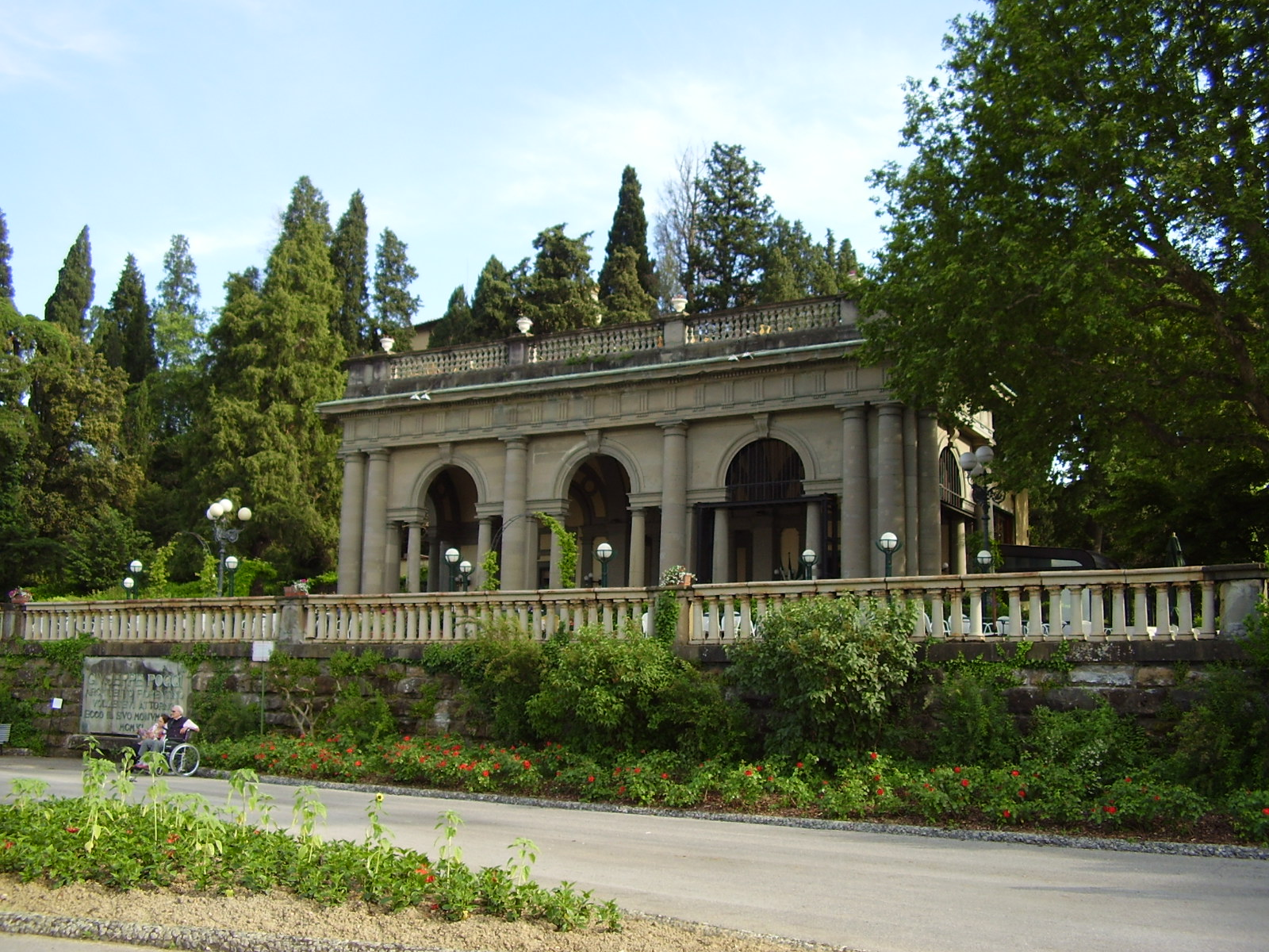 Loggia del Poggi, from Piazzale Michelangelo in Florence, Italy